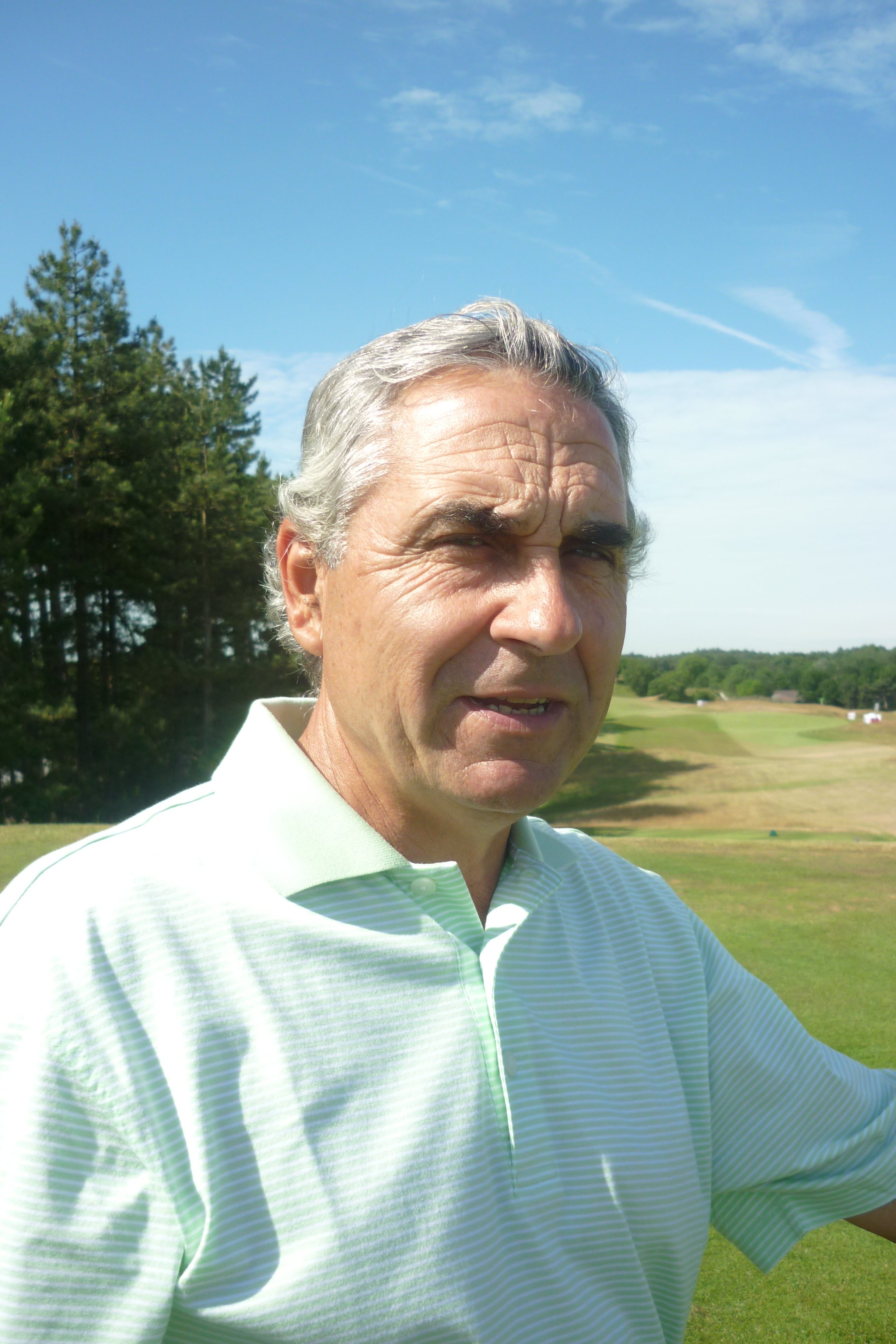 Luiz Carbonetti at the Dutch Seniors Open